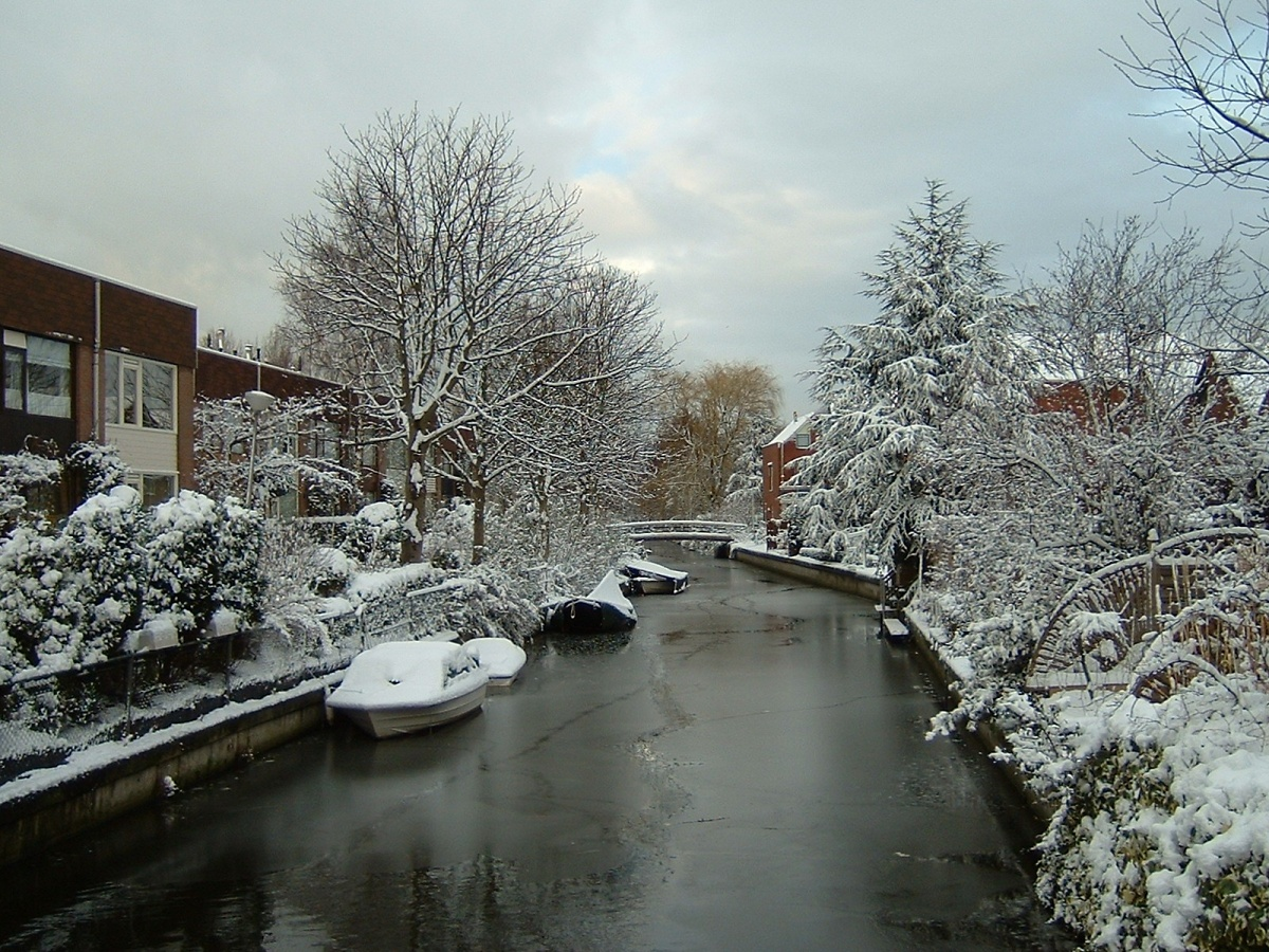 A Dutch canal in winter.